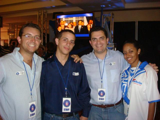 PRSSA leaders at the 2008 New Progressive Party Convention at the Condado Plaza Hotel & Casino in San Juan, Puerto Rico.